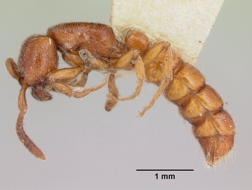 Profile view of ant Sphinctomyrmex froggatti specimen casent0173055.